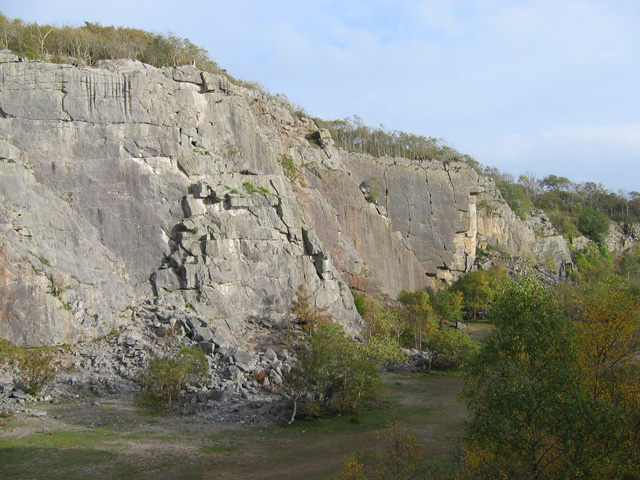 Trowbarrow quarry This abandoned limestone quarry (shown as The Trough on 1:25000 maps) is now a nature reserve. It is now frequented by climbers and off-road cyclists.